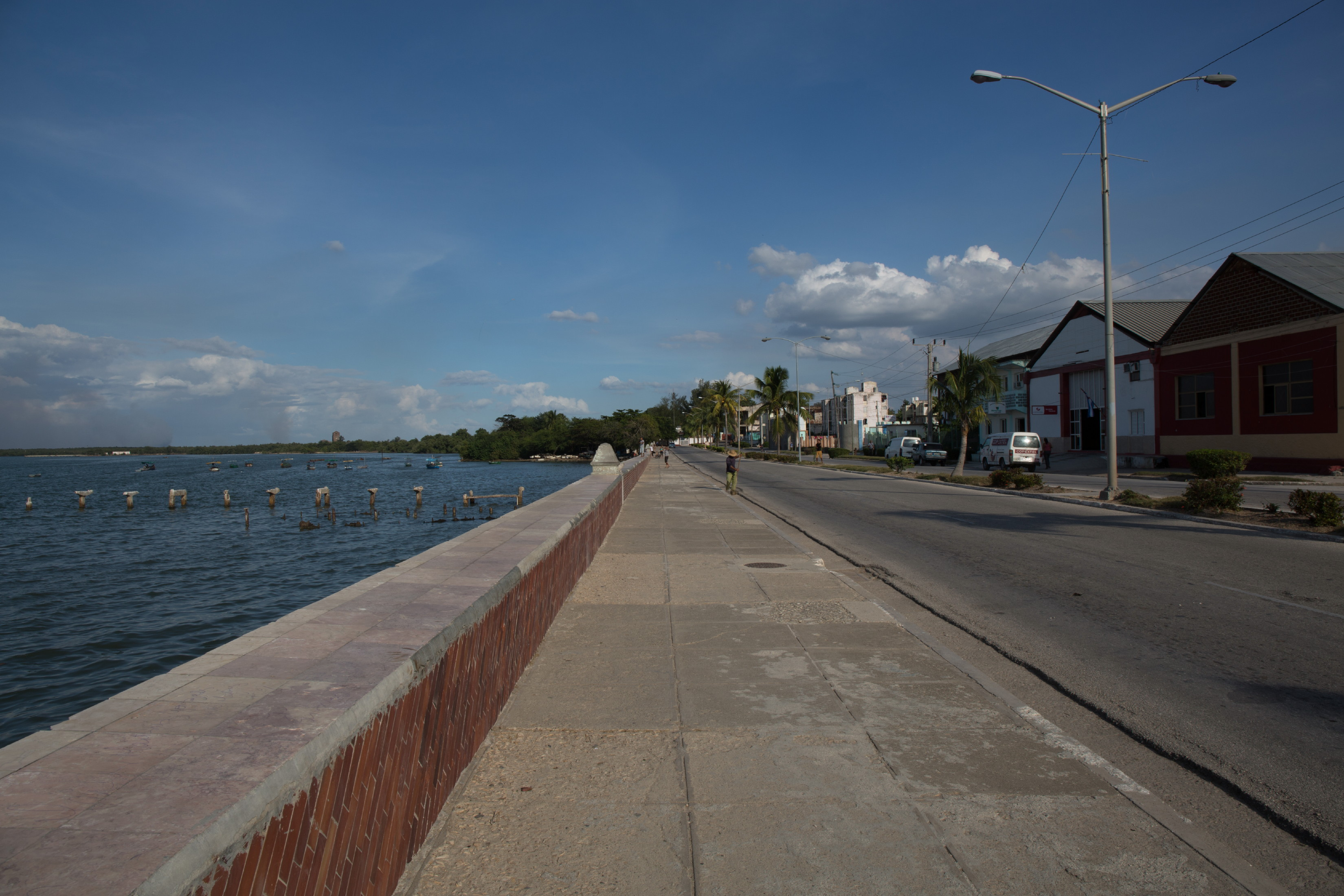 Manzanillo, Cuba Manzanillo, province of Granma, Malecón